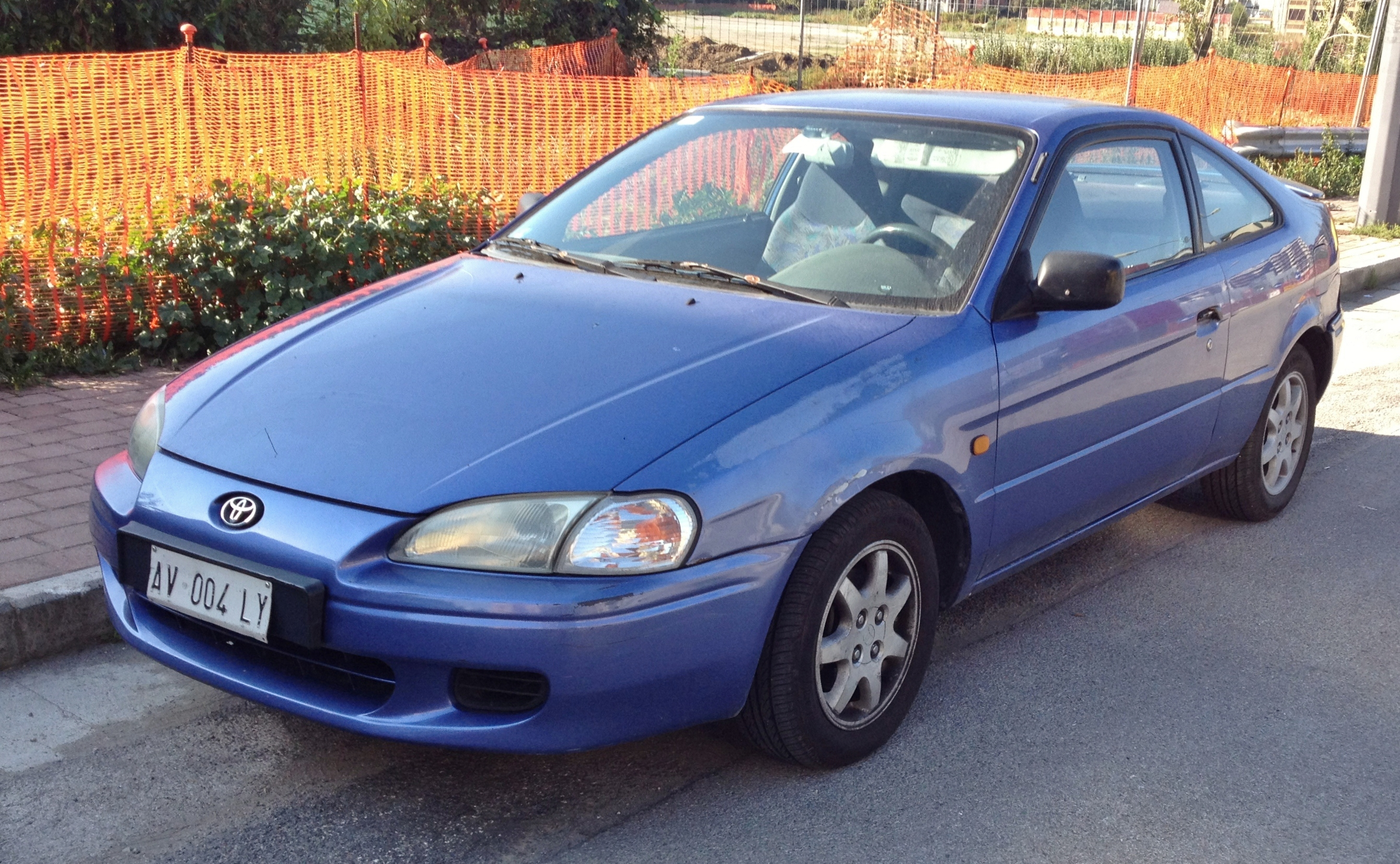 Toyota Paseo Coupé